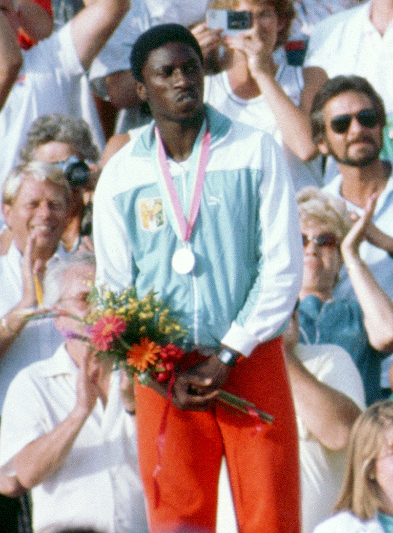 The silver medalist in the 400 meter race at the 1984 Summer Olympics, Gabriel Tiacoh of the Ivory Coast. (excerpt from the original text)